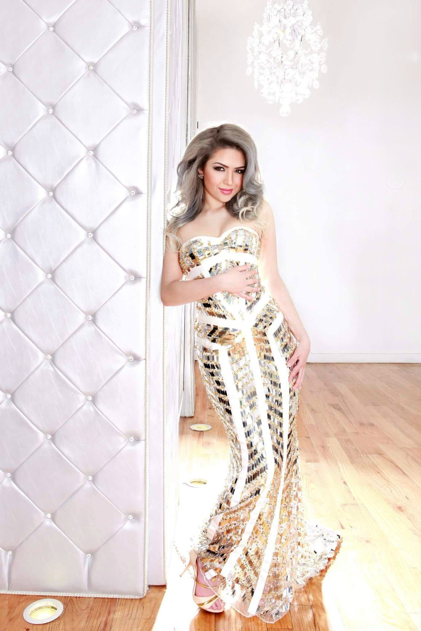 Paloma Carrasco